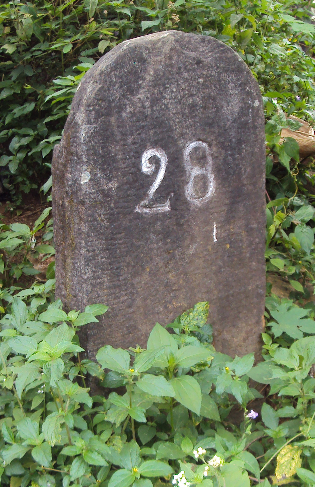 28 - ഇരുപത്തെട്ട്